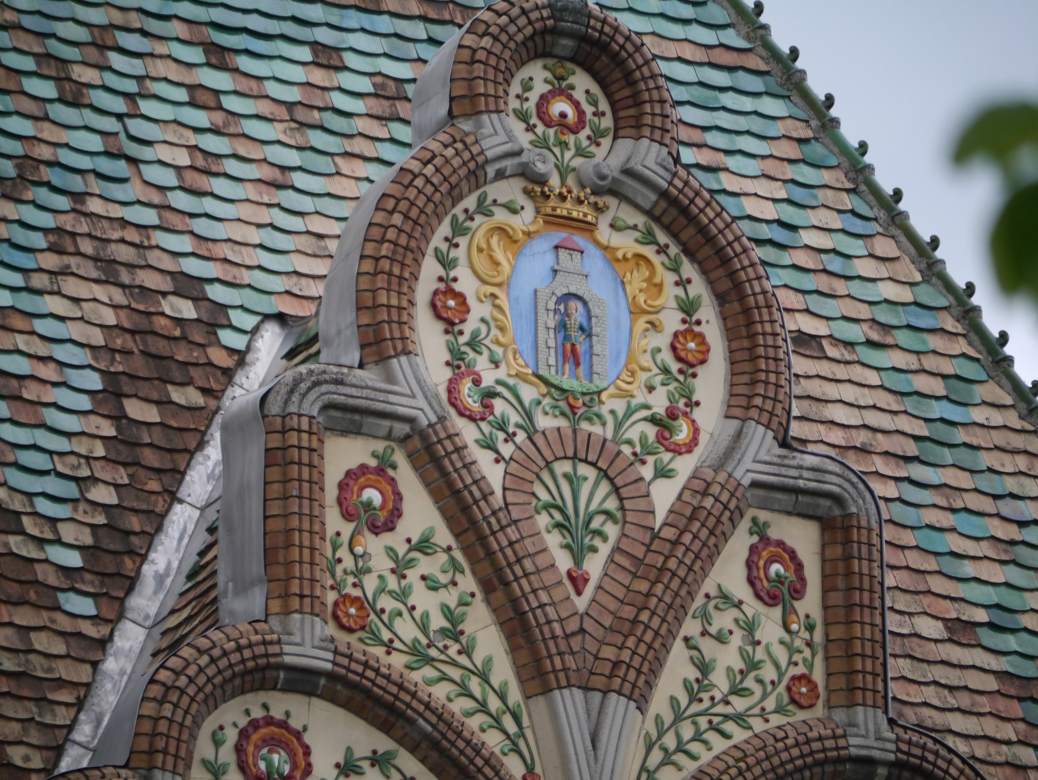 Decoration of the Town Hall, Kiskunfélegyháza, Southern Hungary